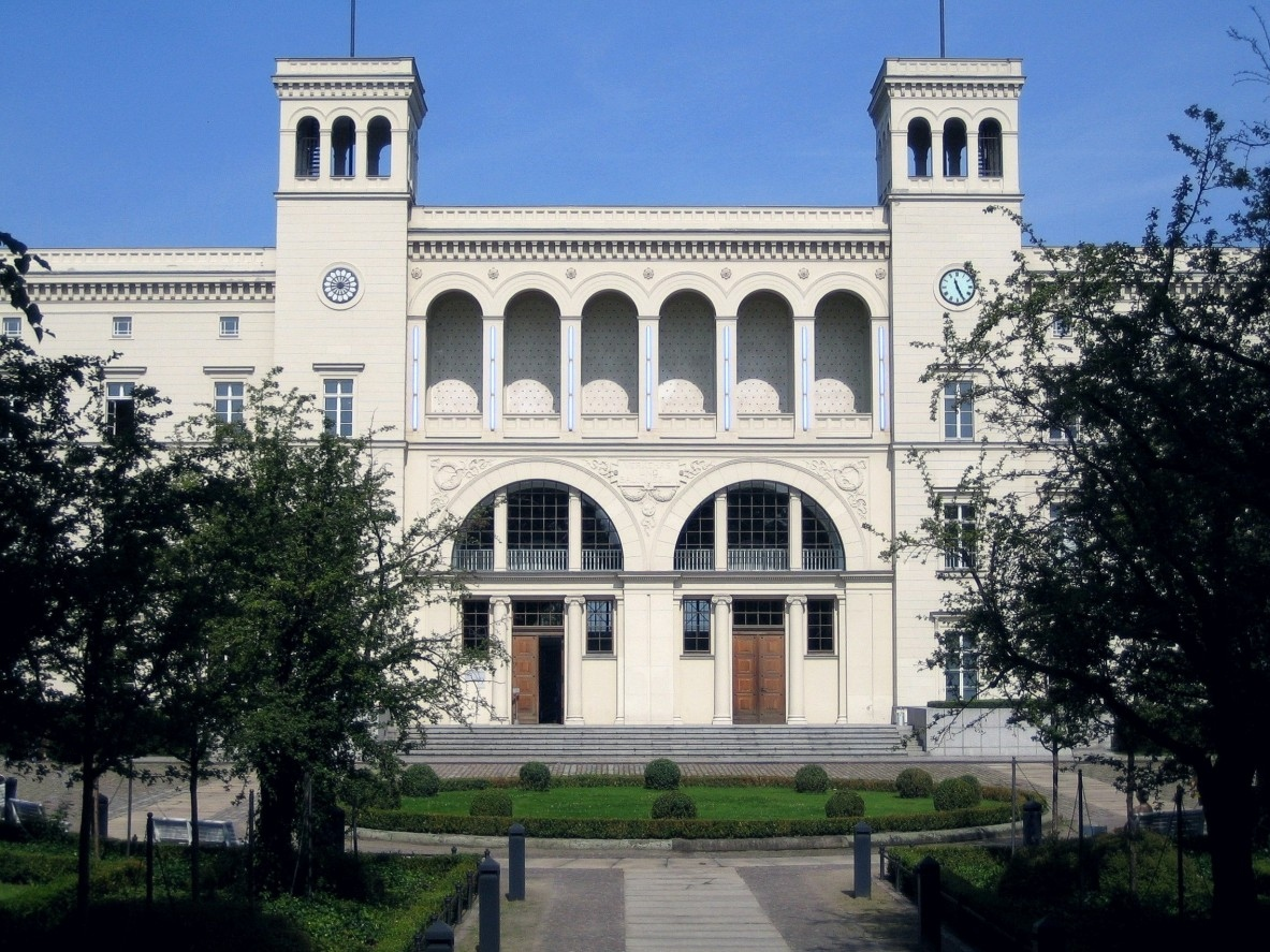 "Hamburg station" (Hamburger Bahnhof) in Berlin; Germany